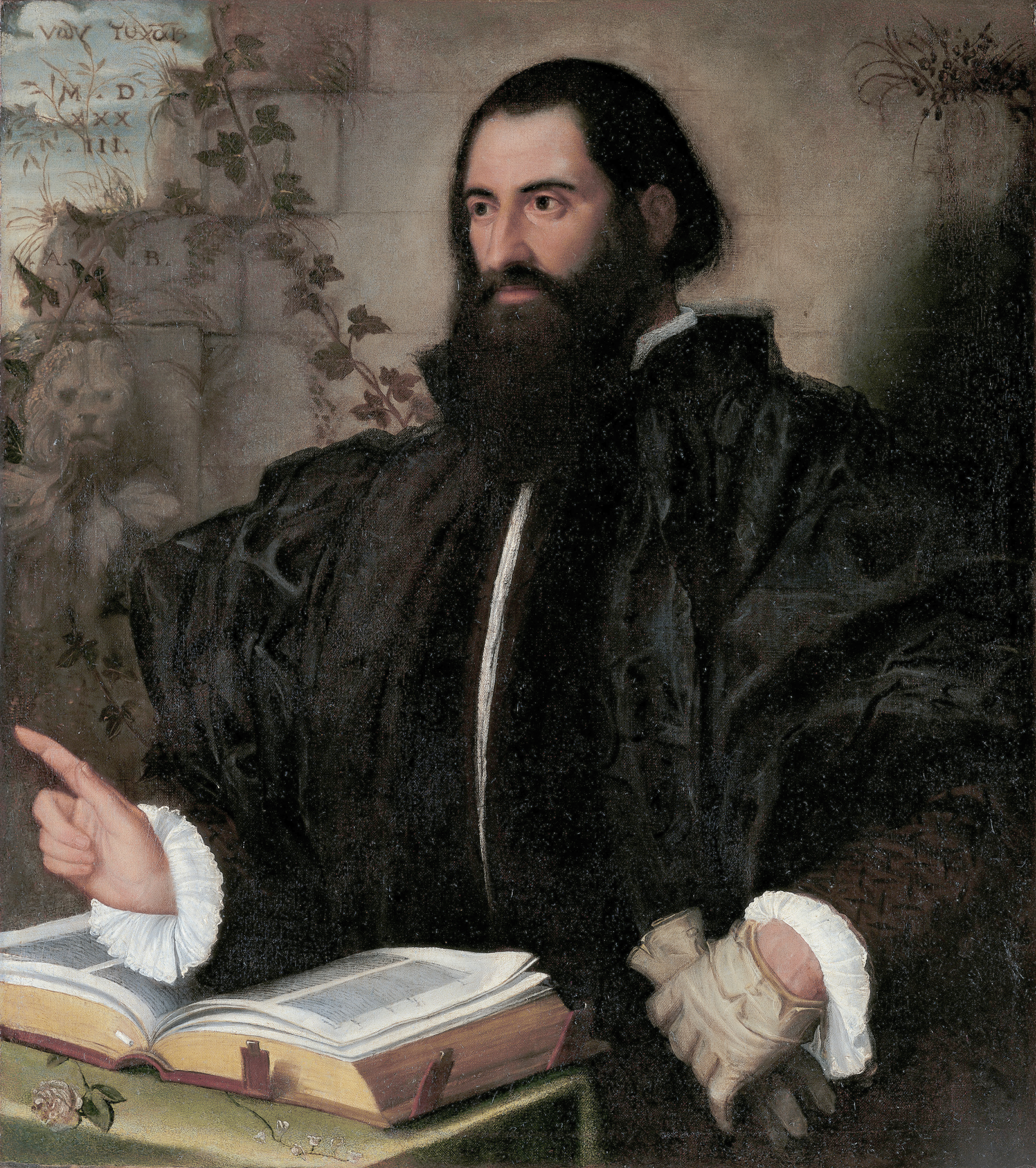 Pietro Andrea Mattioli oil on canvas 84 x 75 cm 1533